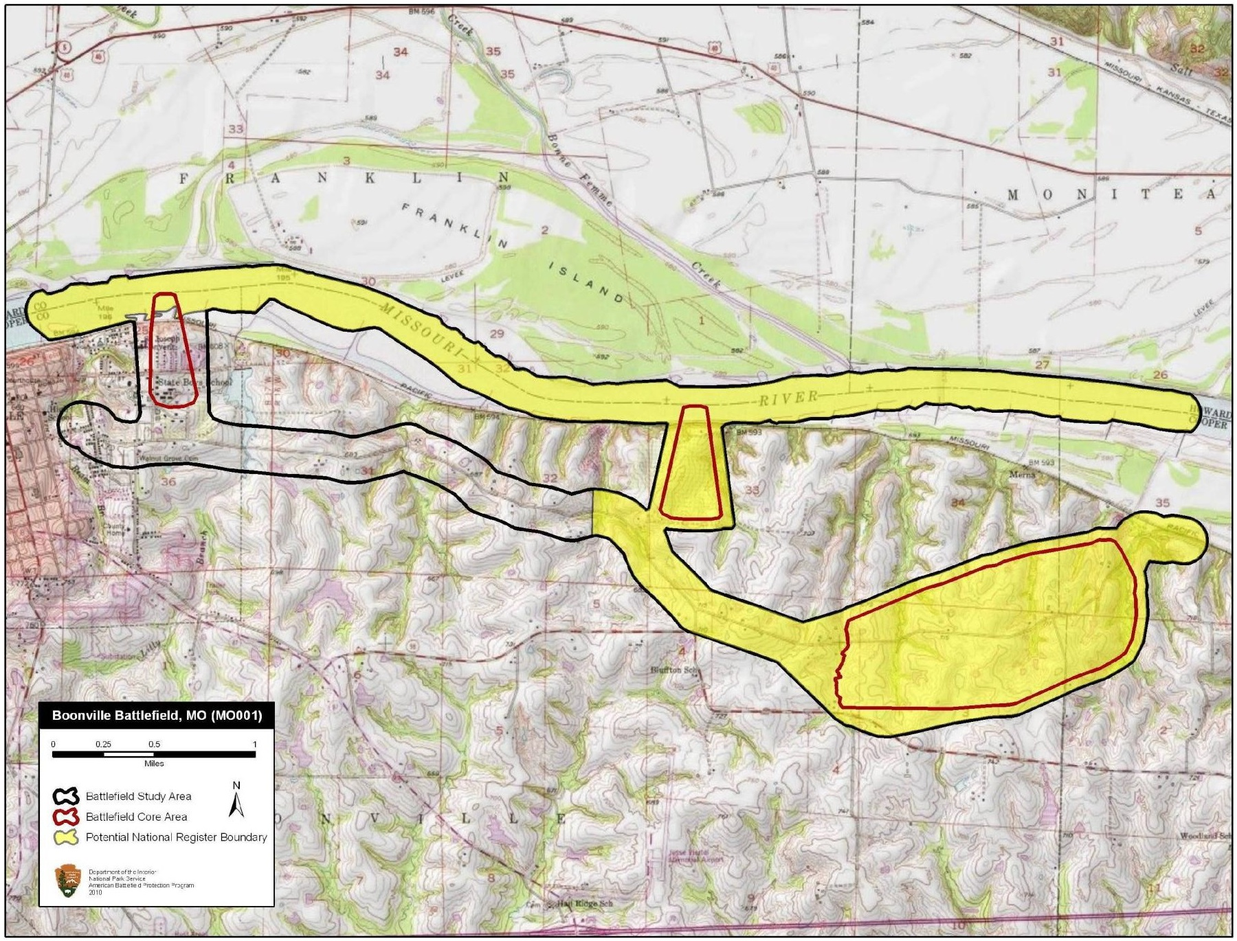 Map of battlefield core and study areas. The ABPP modified the 1993 Study Area to add the route of the Federal approach from the Missouri River and the route of the Confederate retreat towards the town of Boonville. The 1993 Core Area was shortened slightly to represent the actual location of Camp Bacon. The ABPP also added two new Core Areas. The first represents the location of a Confederate battery along the river that was bombarded by the Union Army transport’s artillery. The second Core Area represents the Confederate camp on the outskirts of town that also received fire from the transport’s artillery.